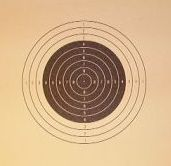 International air rifle target